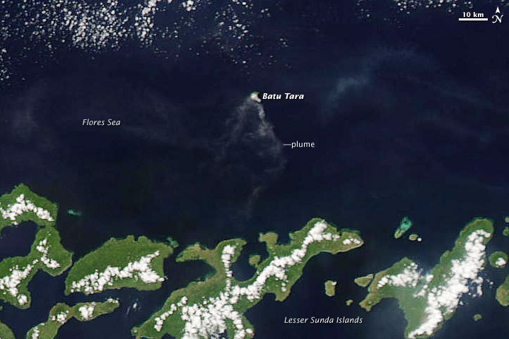 The tiny volcanic island of Batu Tara has been erupting sporadically since March 2007. Located in the Flores Sea, Batu Tara is about 50 kilometers (30 miles) north of Indonesia’s Lesser Sunda Islands. The Darwin Volcanic Ash Advisory Centre reported eruptions of ash up to 8,000 feet (2,000 meters) on March 15, 2009. The Moderate Resolution Imaging Spectroradiometer (MODIS) aboard NASA’s Terra satellite captured this natural-color image of the ash plume on March 15, 2010.